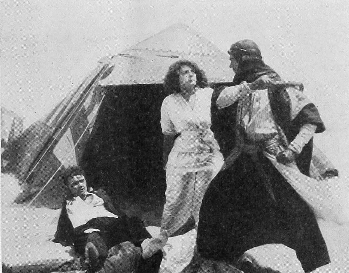 Wheeler Oakman, Kathlyn Williams, and Charles Clary in a still from the lost film The Carpet from Bagdad (1915), as reprinted in the journal Motography